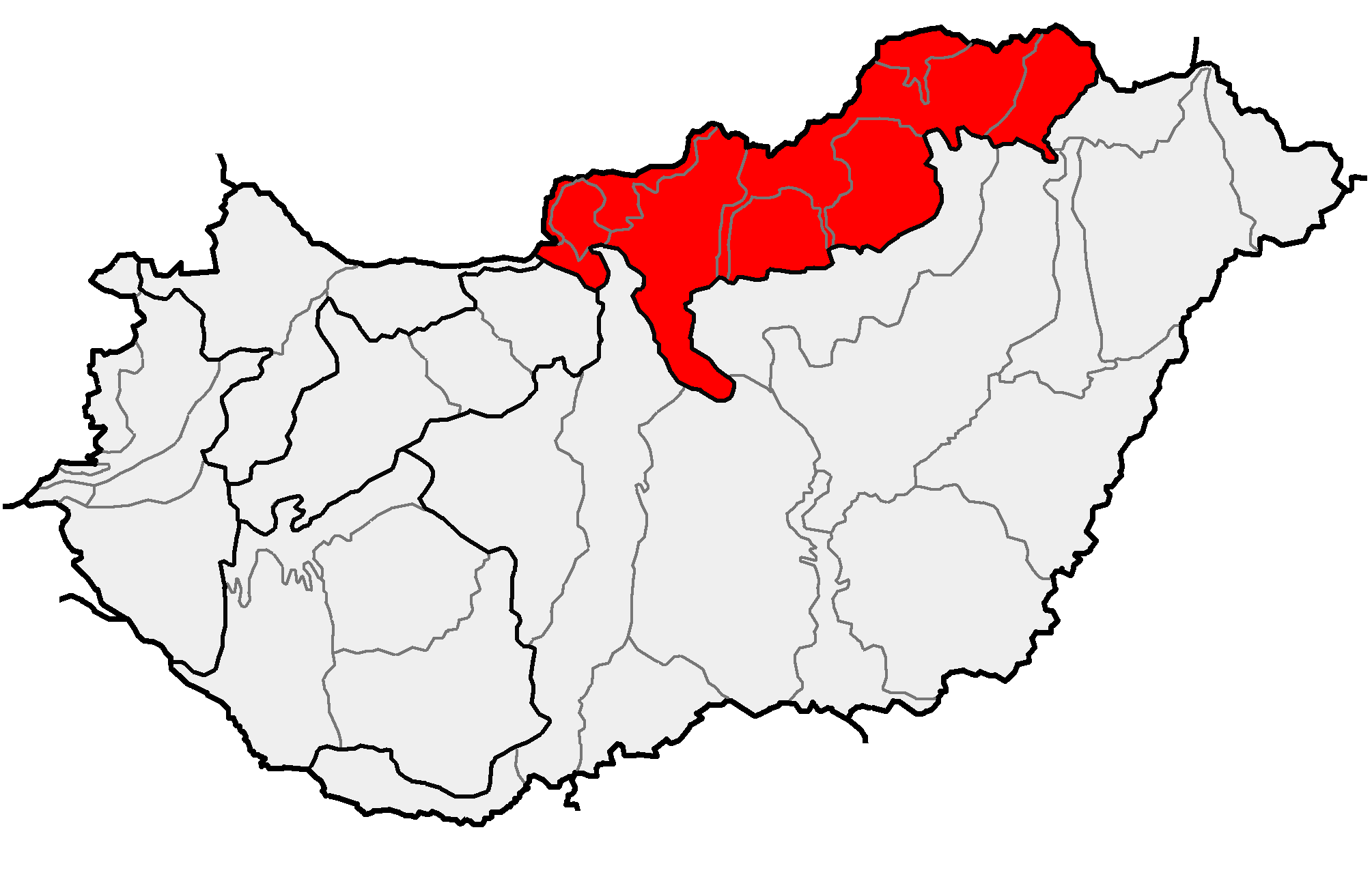 Location of geographical macroregion of Északi-középhegység (red) within subdivisions of Hungary.